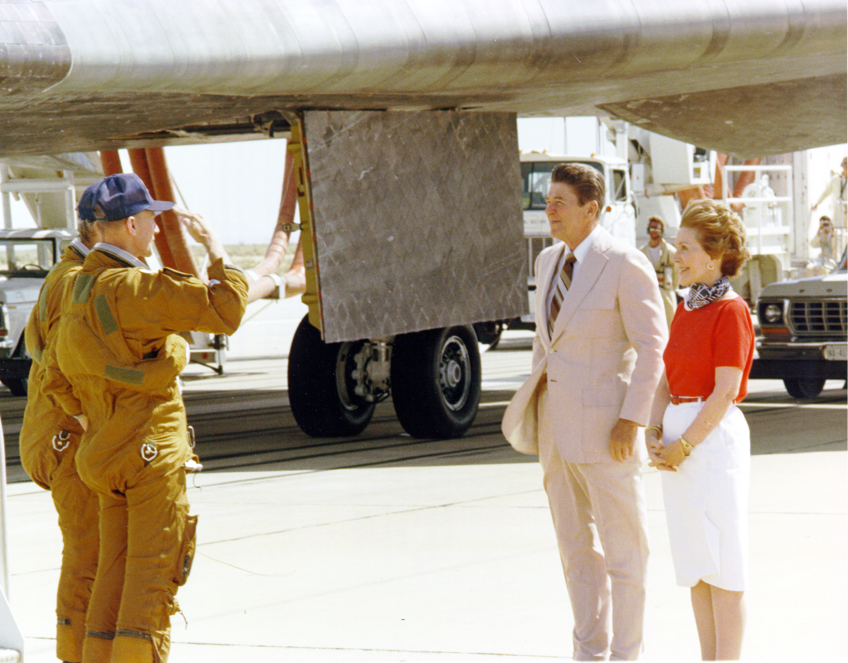 Columbia Space Shuttle astronauts Commander Thomas K. Mattingly, foreground, and Pilot Henry W. Hartsfield salute President Ronald Reagan and his wife, Nancy, as the astronauts begin the customary walk-around inspection of the orbiter after landing. Mattingly and Hartsfield were the first to land the Shuttle on a concrete runway. The landing proved that the shuttle could return safely to a precisely targeted location on Earth.